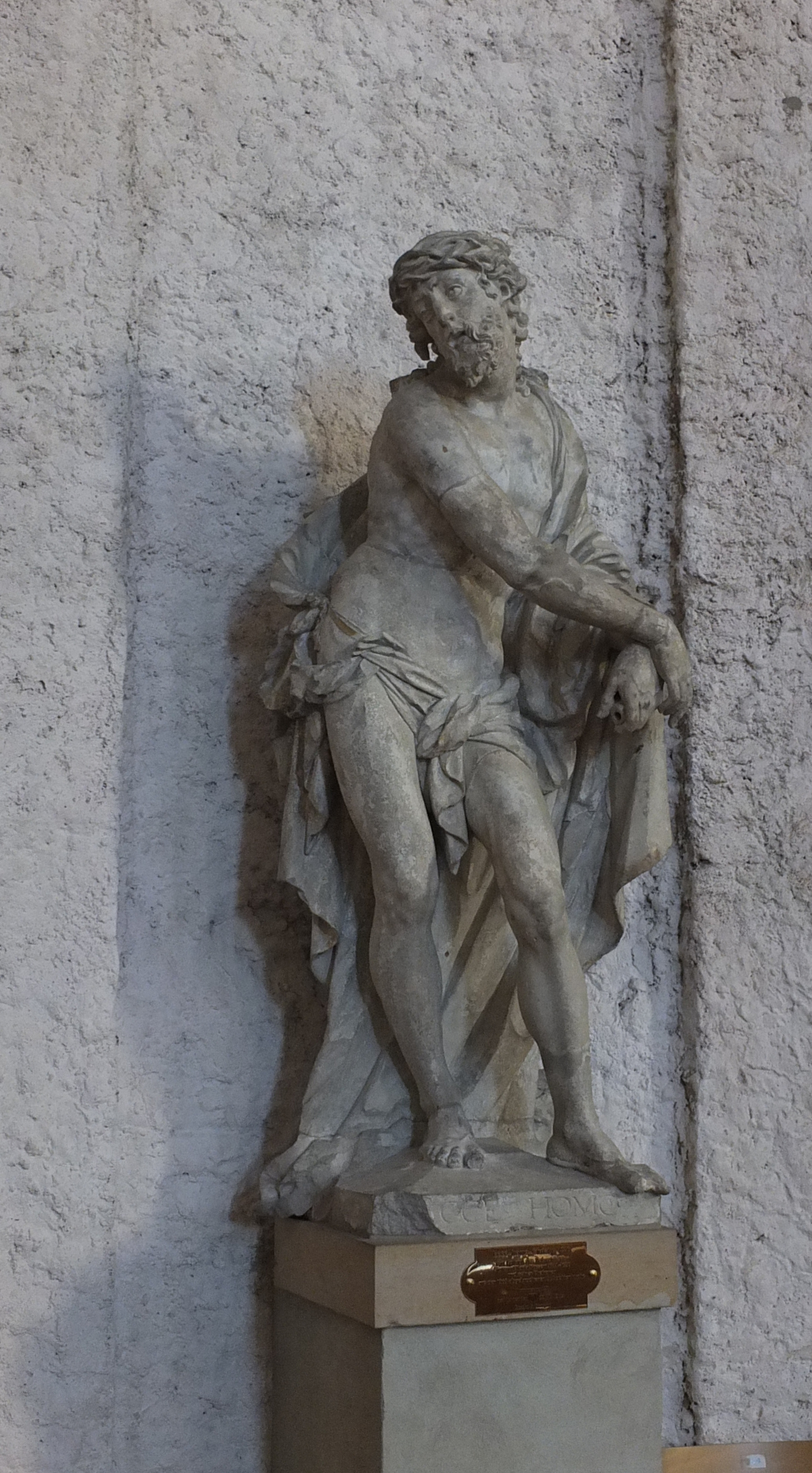 Sebastian Walther and Zacharias Hegewald, Christ alone (also: Ecce Homo) (1616) in the Kreuzkirche, Dresden at the Altmarkt in Dresden. The statue was part of the funerary monument of Juan Maria Nosseni in the Sophienkirche